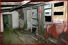 Signal Hill Battery is now Cable Car on Gibraltar - this is the remains of a Nissan Hut within a tunnel under both